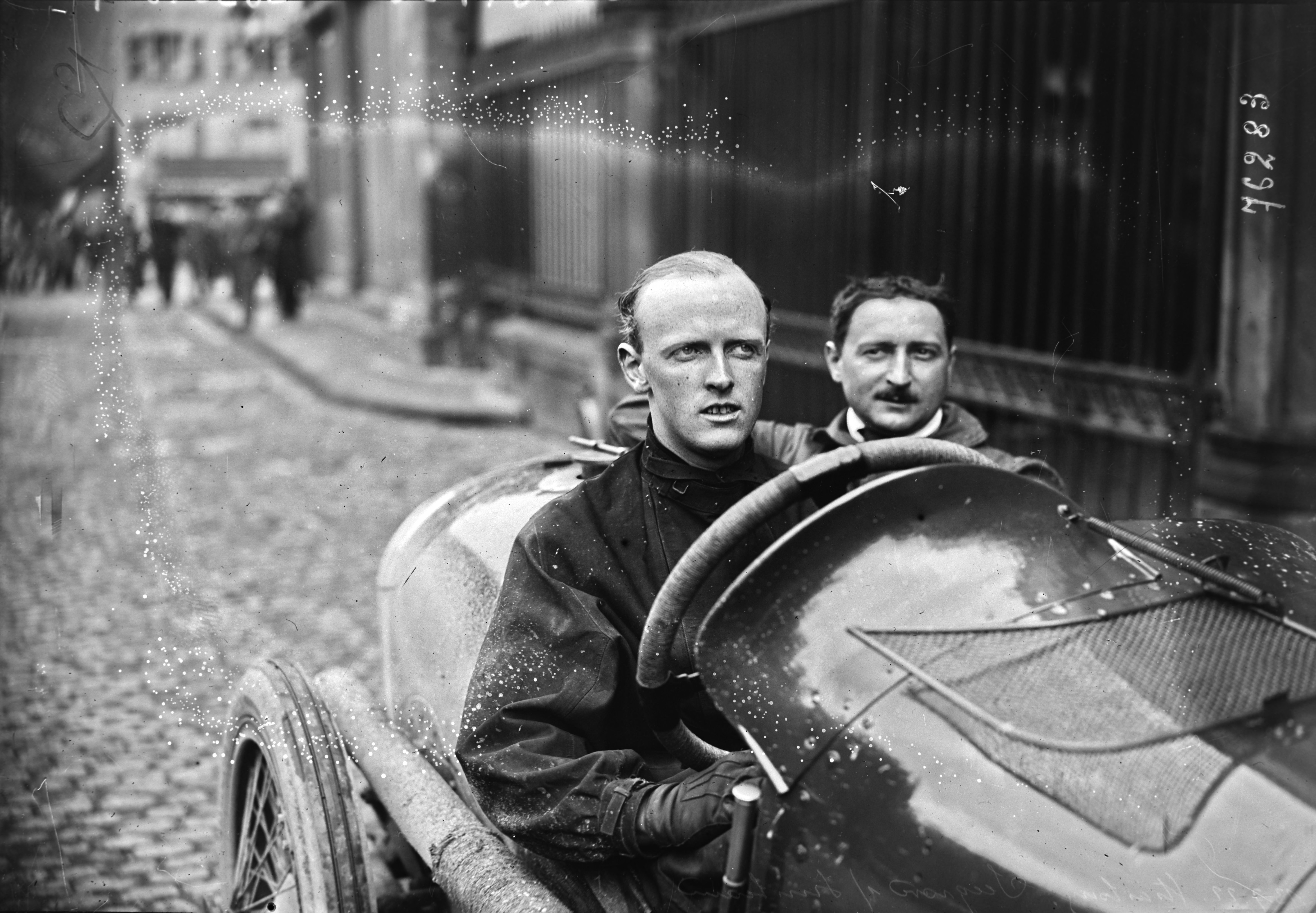 Henry Segrave at the 1922 French Grand Prix